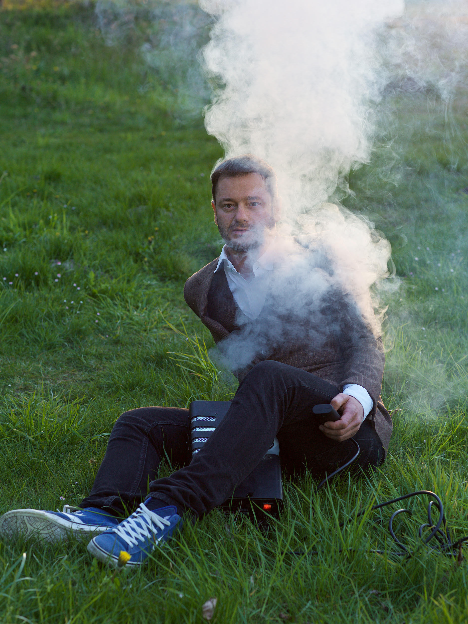 Clemens Krauss portrayed by Oliver Mark, Angermünde 2015